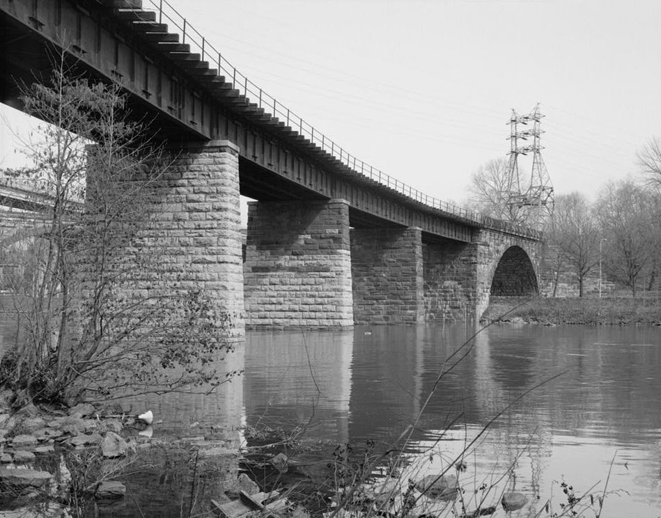 Philadelphia & Reading Railroad, Steel Bridge at West Falls, "Looking east from West River Drive".